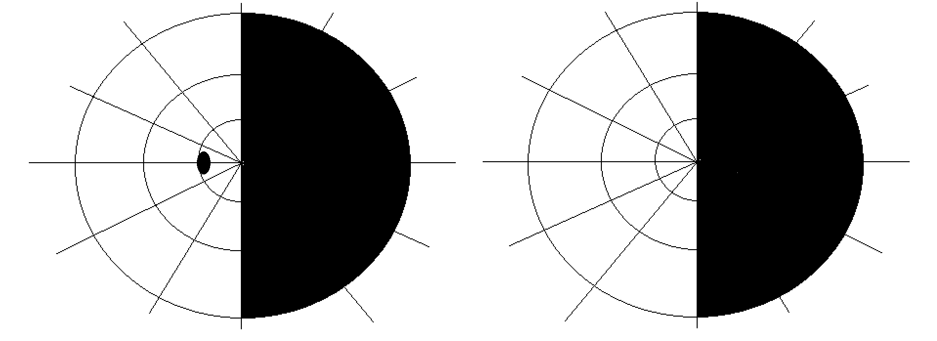 Goldmann visual field record showing a homonymous hemianopia